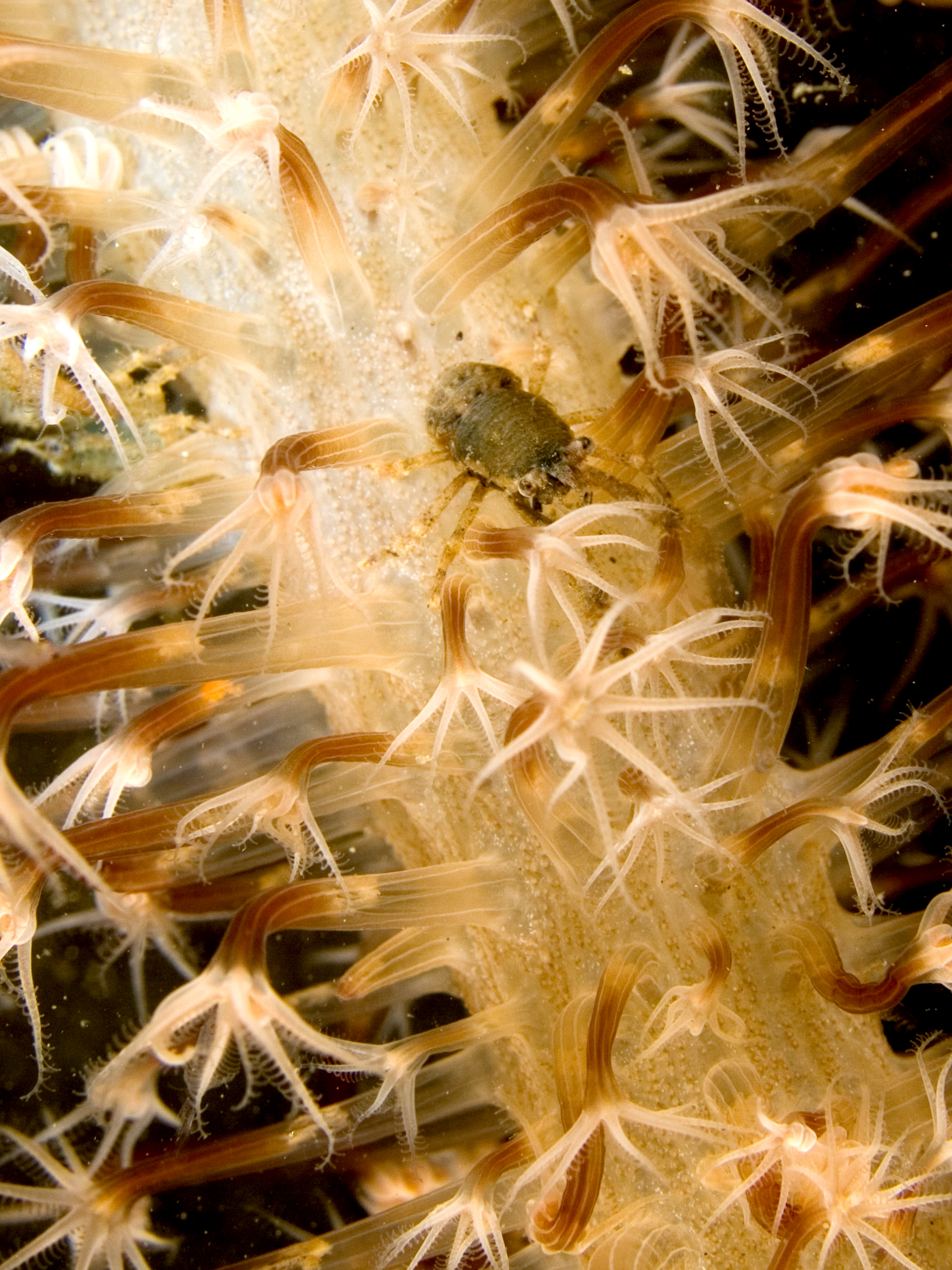 Galathea sp. (Squat lobster) in Veretillum sp. (Sea pen)